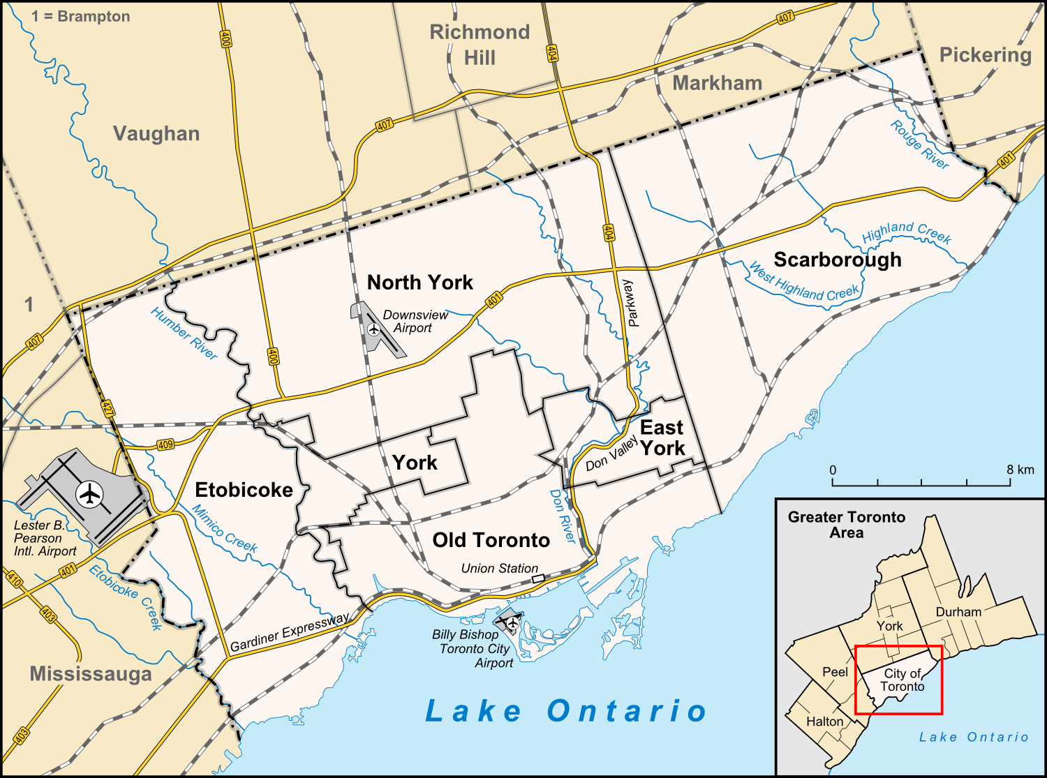 Map of Toronto Geographic limits of the map: N: 43.8754583° S: 43.5655833° W: -79.6763555° E: -79.0993611° ratio of height of image to width = 0.74375